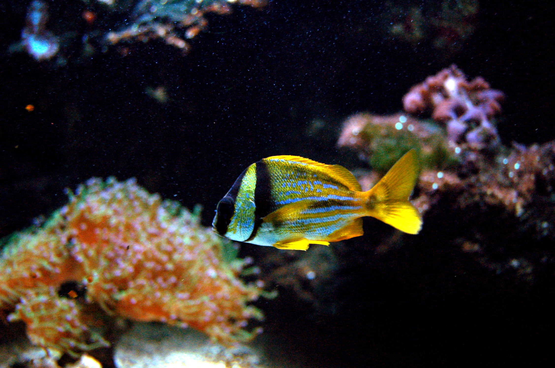 Anisotremus virginicus